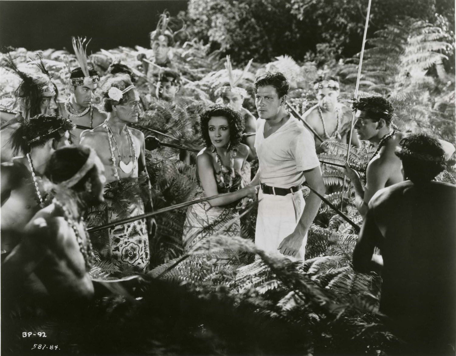 Dolores del Río & Joel McCrea (center) in Bird of Paradise - cropped screenshot